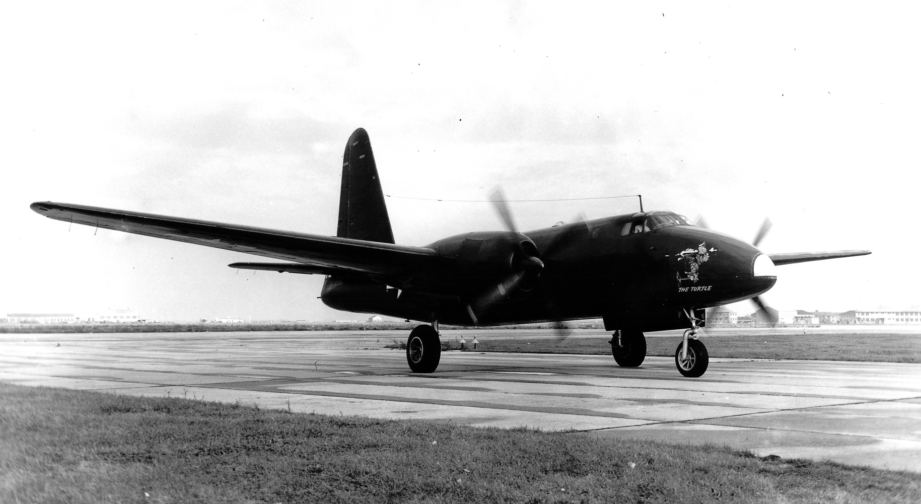 The third Lockheed P2V-1 Neptune (BuNo. 89082), named the "TRUCULENT TURTLE", was stripped down, fitted with auxiliary fuel tanks plus an extended nose, and set an unrefueled long distance flight record 1946. The aircraft took off from Perth (Australia) on 29 Sep 1946 and landed in Columbus (Ohio, USA) on 1 Oct 1946 . It flew with a crew of four U.S. Navy officers and a young kangaroo, covering 18,089.3 kilometers (11,235.6 miles) in 55 hours 18 minutes.